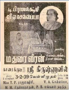 Advertising poster of Tamil film Madurai Veeran (1939)